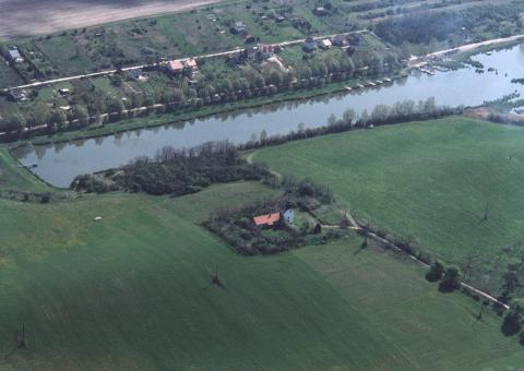 Aerialphotograph of Reservoir owned by Etyek Fishing Association in Etyek-Botpuszta, Hungary. Located to the north of the Etyek village It covers 17 hectares, of which only 11 hectares can fishing the remainder is covered with dense reeds. The lake was created by Hungarovin company in the 1970s to irrigate vast vineyards from its water.